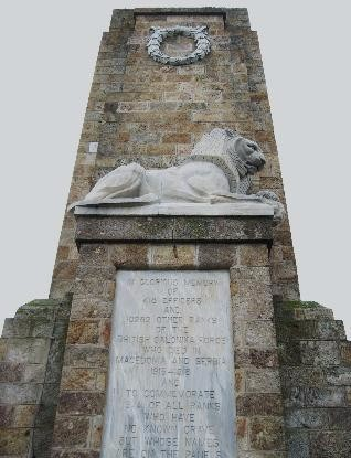 Doiran Memorial, near Doiran Military Cemetery, which is situated near the former town of Doirani in the north of Greece close to the Macedonia border and near the south-east shore of Lake Doiran.